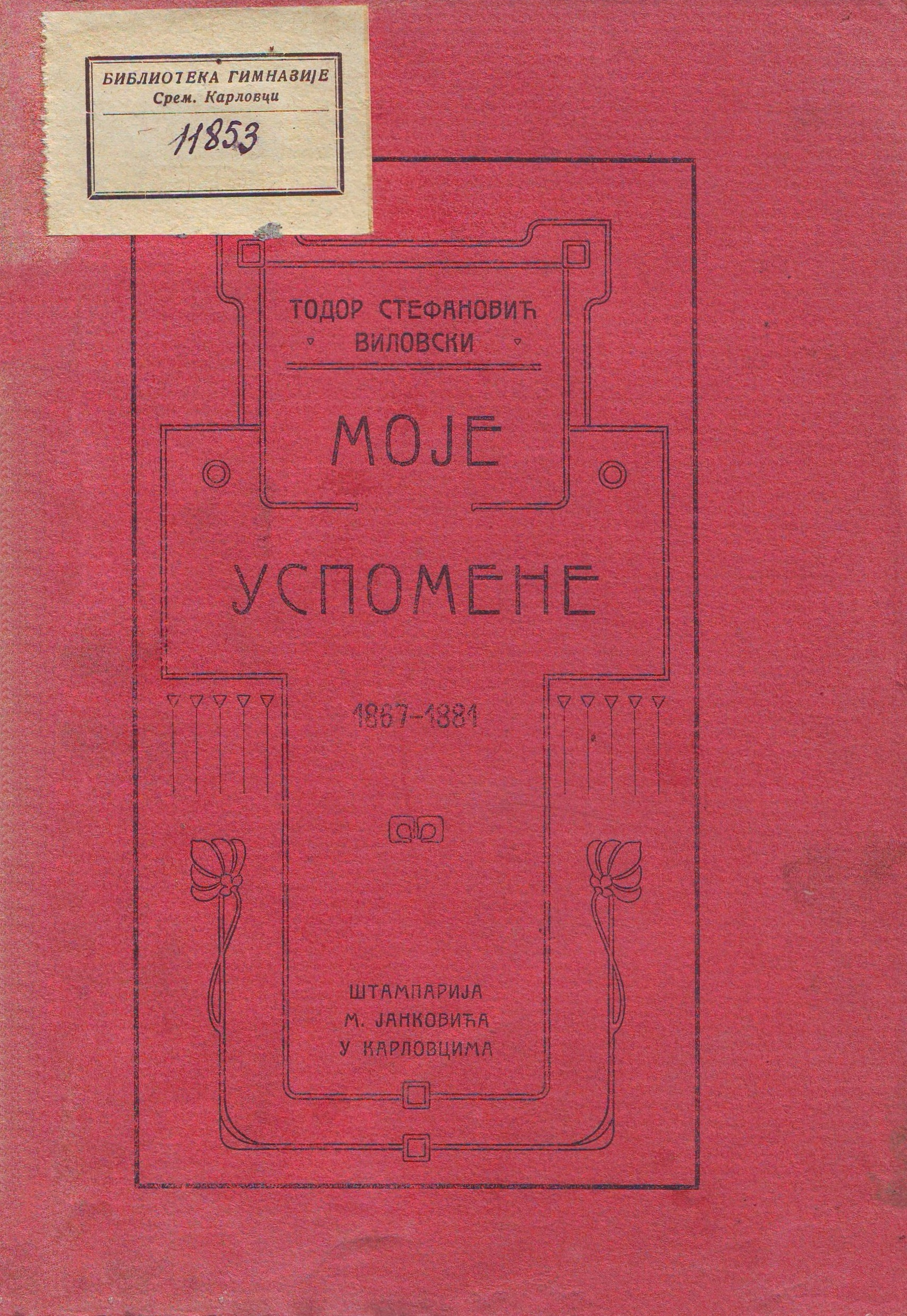 Cover of memoirs Moje uspomene (1907) by Todor Stefanović Vilovski. Srpski (latinica): Naslovna strana memoara Moje uspomene (1907) Todora Stefanovića Vilovskog.